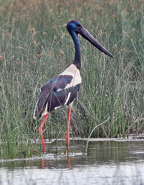 Black-necked Stork (Ephippiorhynchus asiaticus) at/ near Hodal in Faridabad District of Haryana, India.